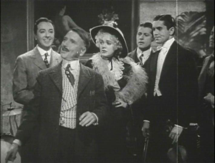 Screenshot of Jack Haley, unknown, Alice Faye, Don Ameche and Tyrone Power from the trailer for the film Alexander's Ragtime Band